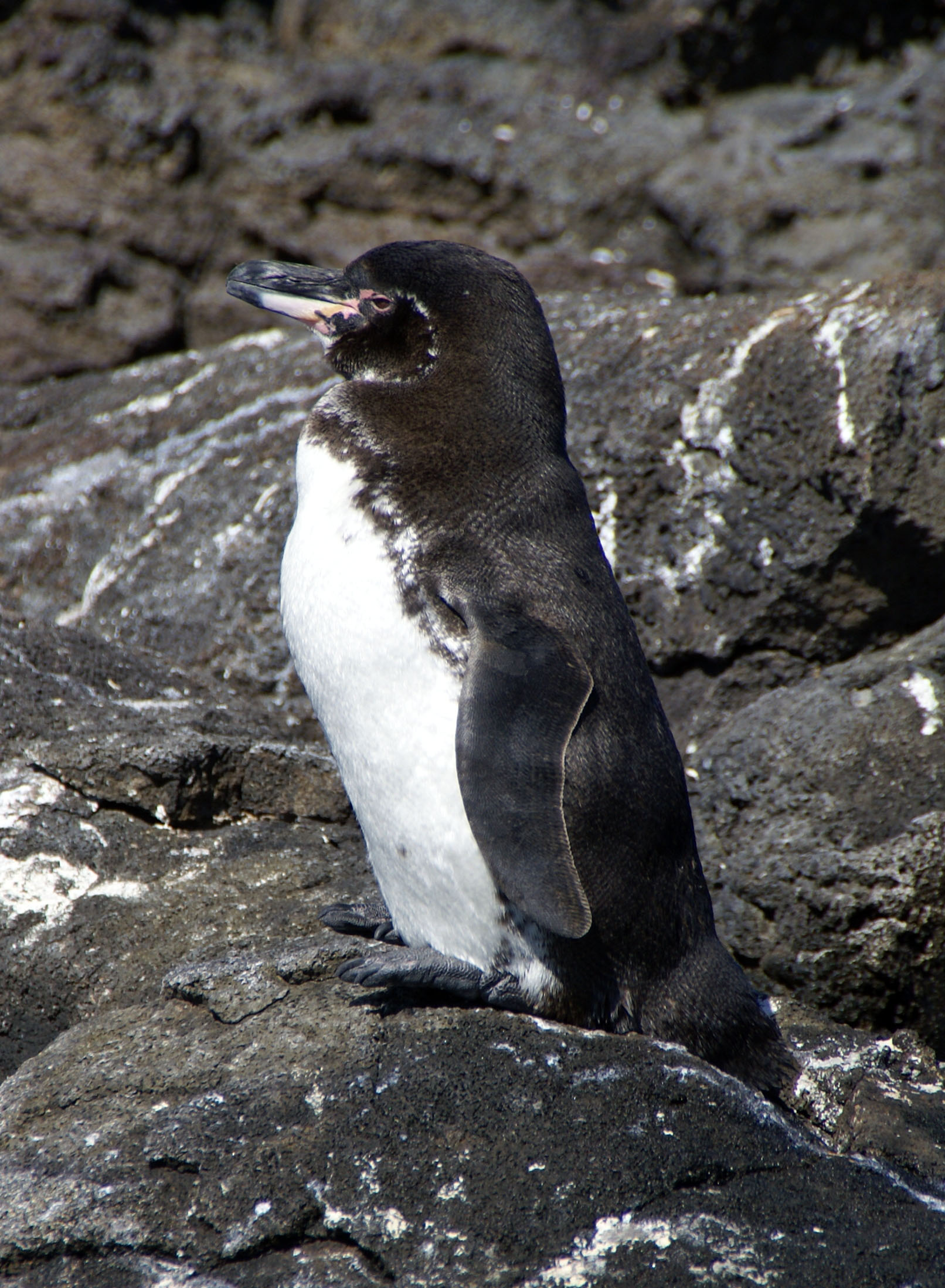 Galápagos Penguin (Spheniscus mendiculus) standing on rocky ground on Bartolome island, Galapagos.